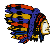 The Wilson Warrior head